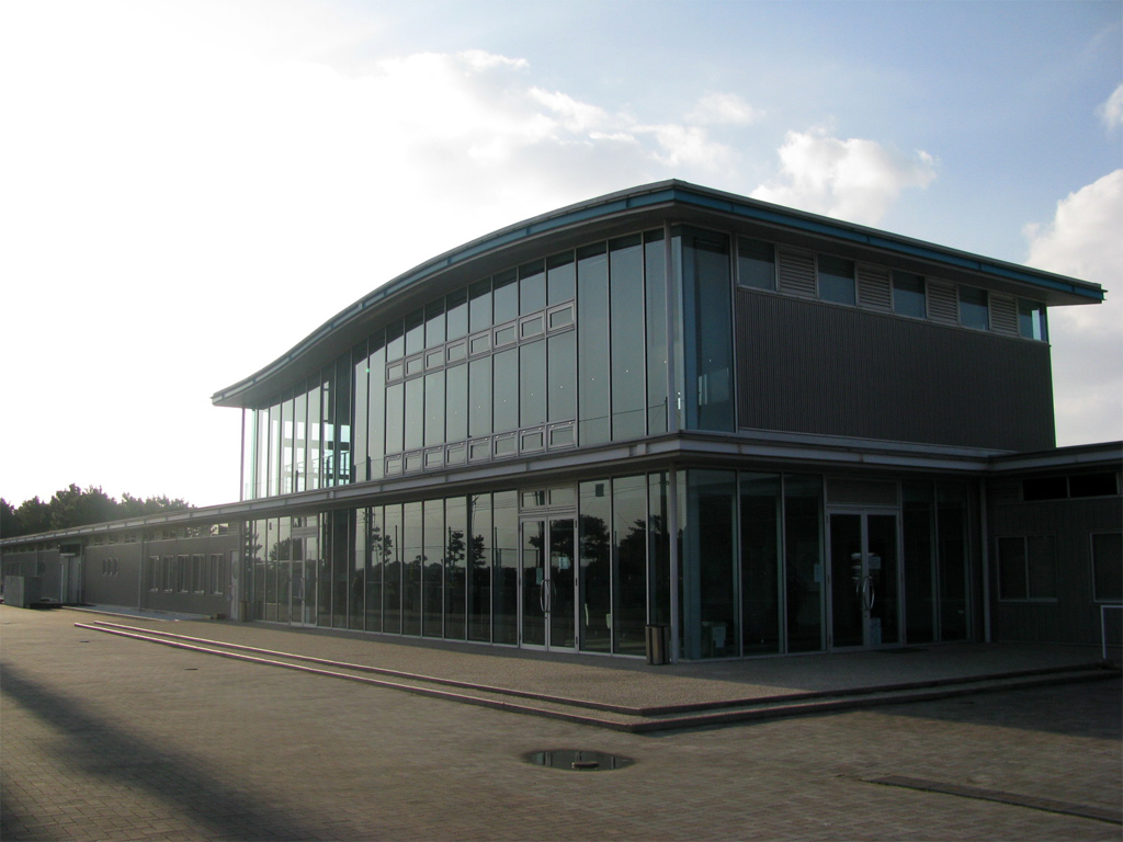 Club house of the Avispa Fukuoka at the Gannosu Recreation Center in Fukuoka City